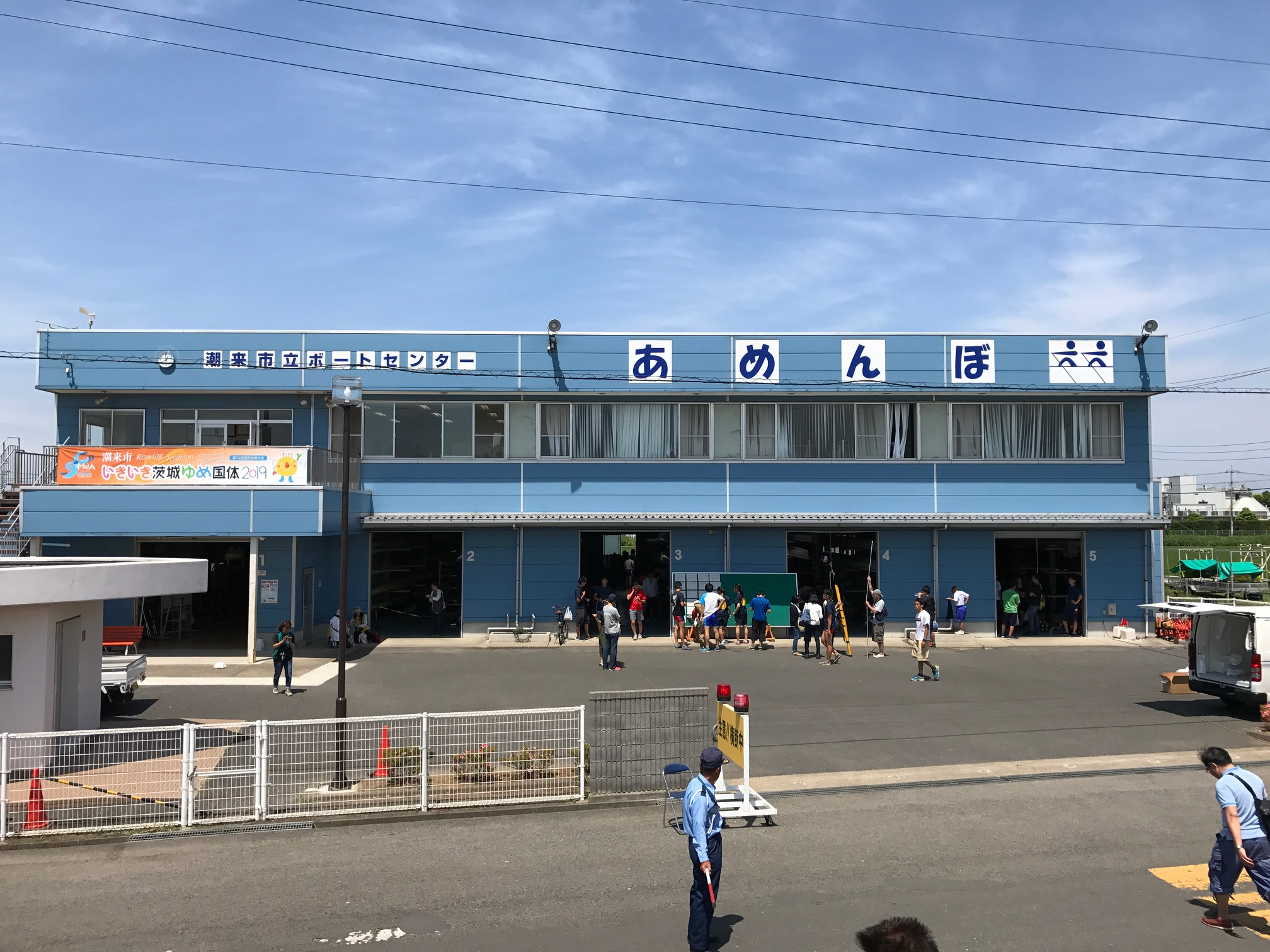 Itako Boathouse in Itako city, Ibaraki pref Japan